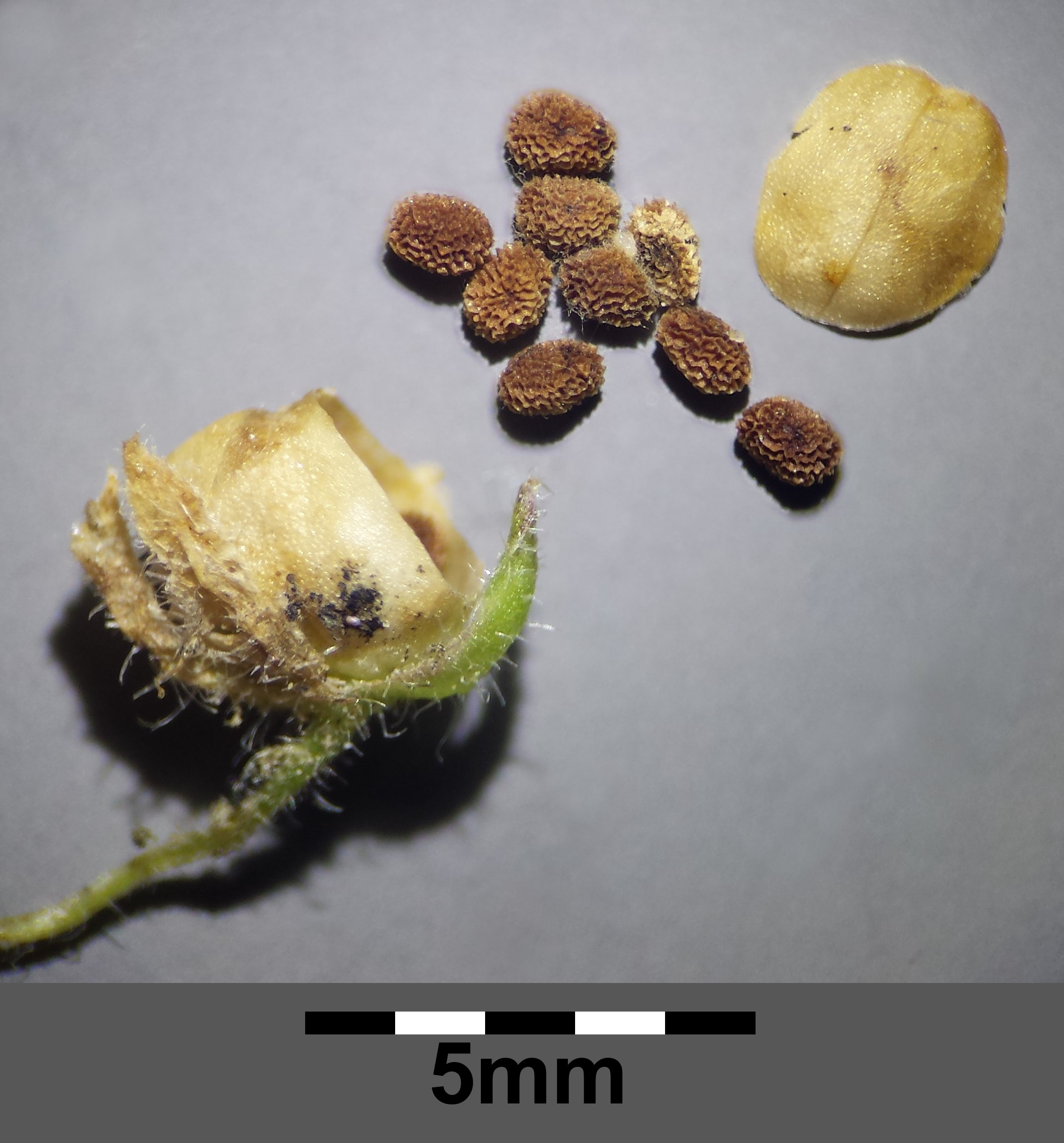 Fruit with seeds Taxonym: Kickxia elatine ss Fischer et al. EfÖLS 2008 ISBN 978-3-85474-187-9 Location: Groß-Jedlersdorf cemetery, Vienna-Floridsdorf - ca. 160 m a.s.l. Habitat: gap in surface